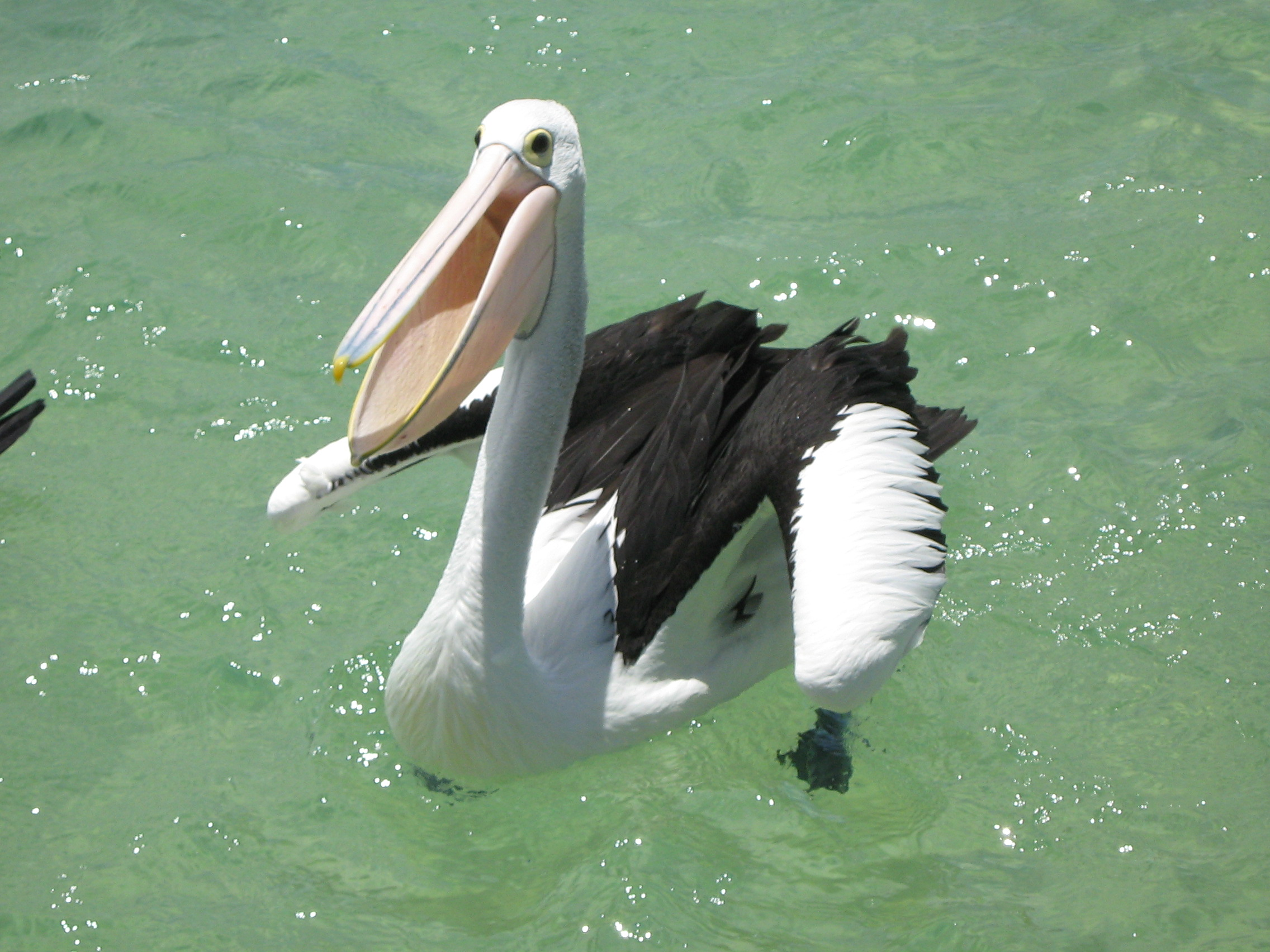 An Australian Pelican at Tangalooma Wild Dolphin Resort, Moreton Island.